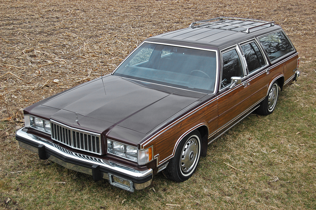 Mercury Grand Marquis Colony Park